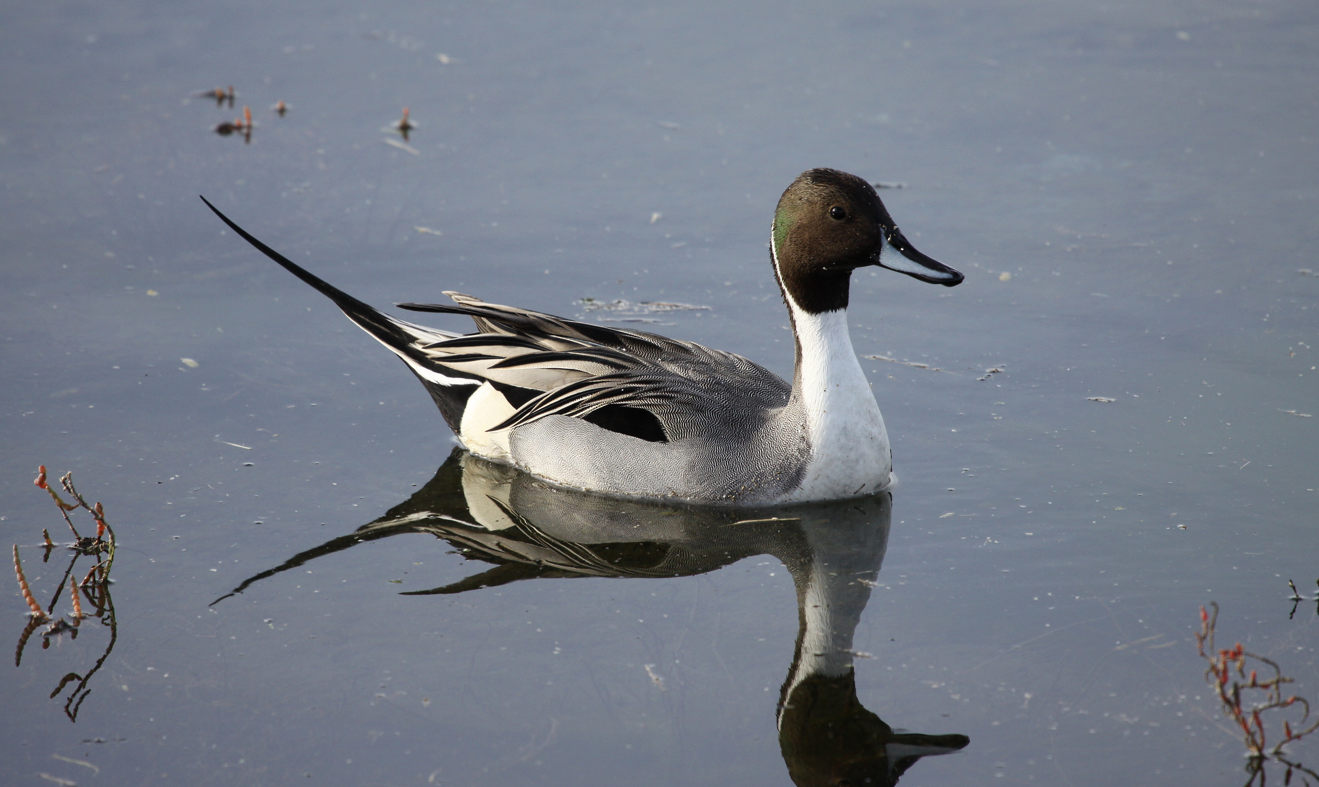 Northern Pintail (Anas acuta)